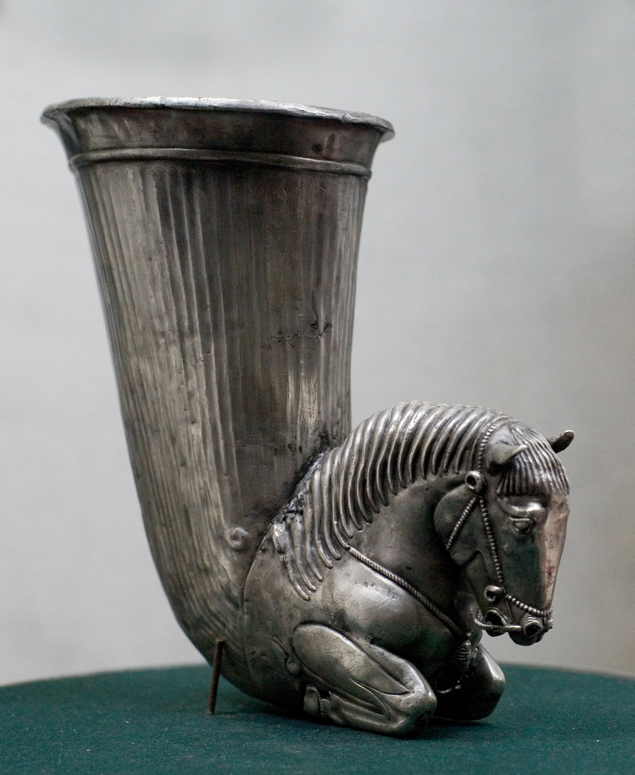 Achaemenid Silver Goblet found near Arin-Berd